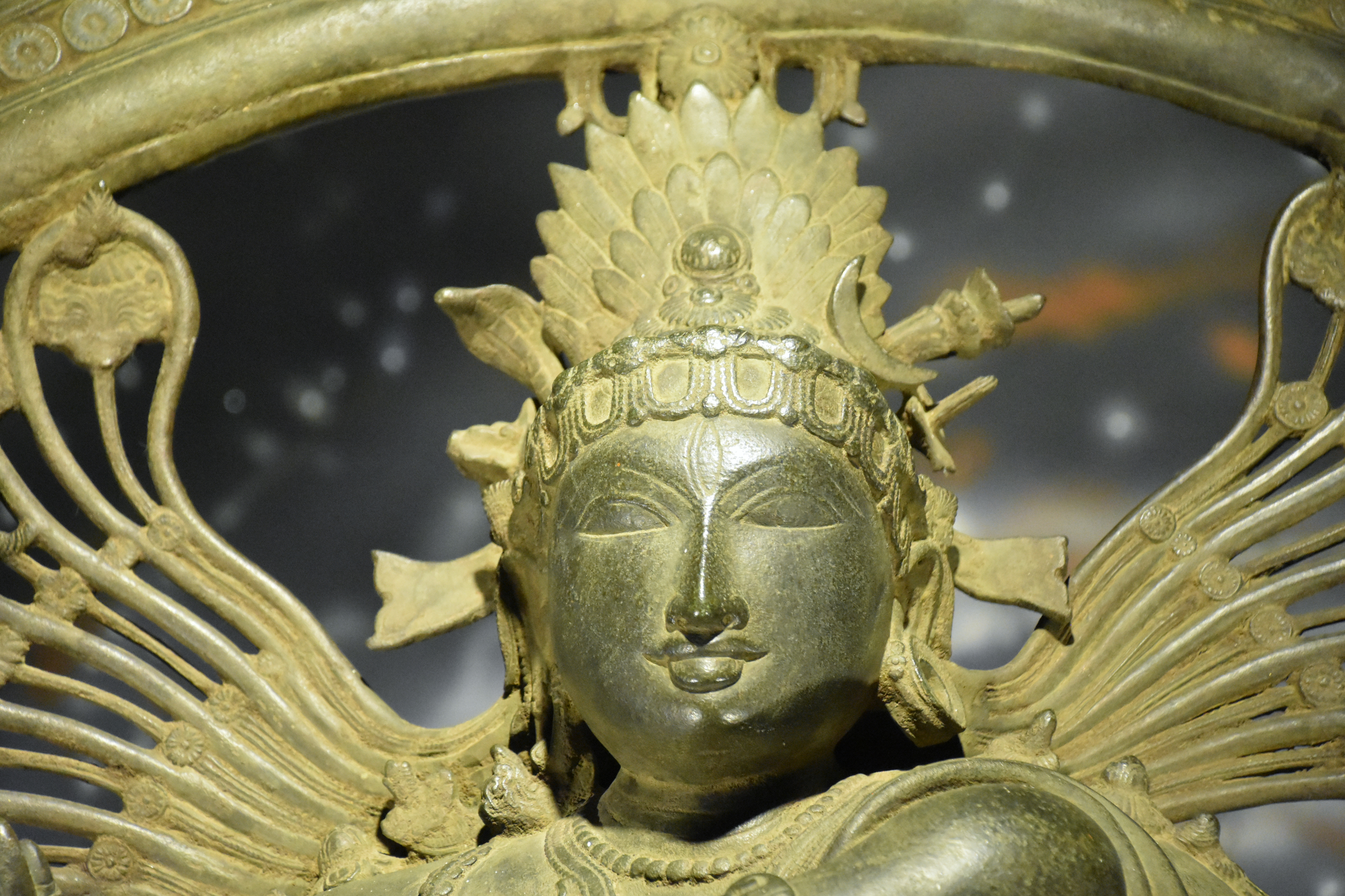 Nataraja is the dancing Shiva Lord of dance in Hinduism